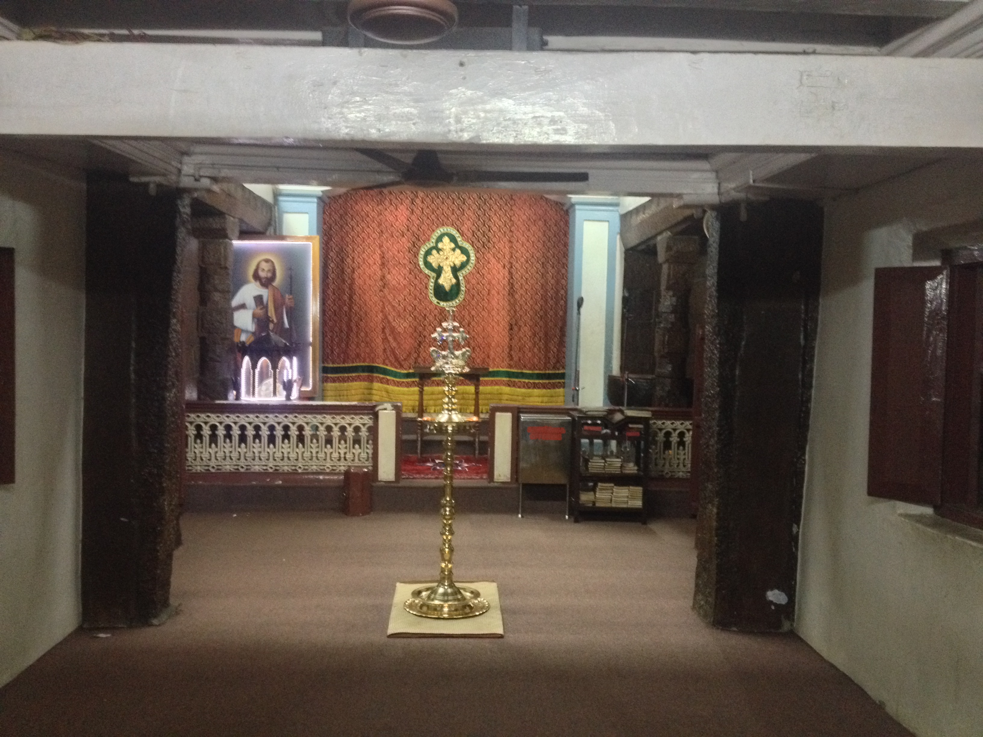 Inside Arapally two millennium old Christian Church in India